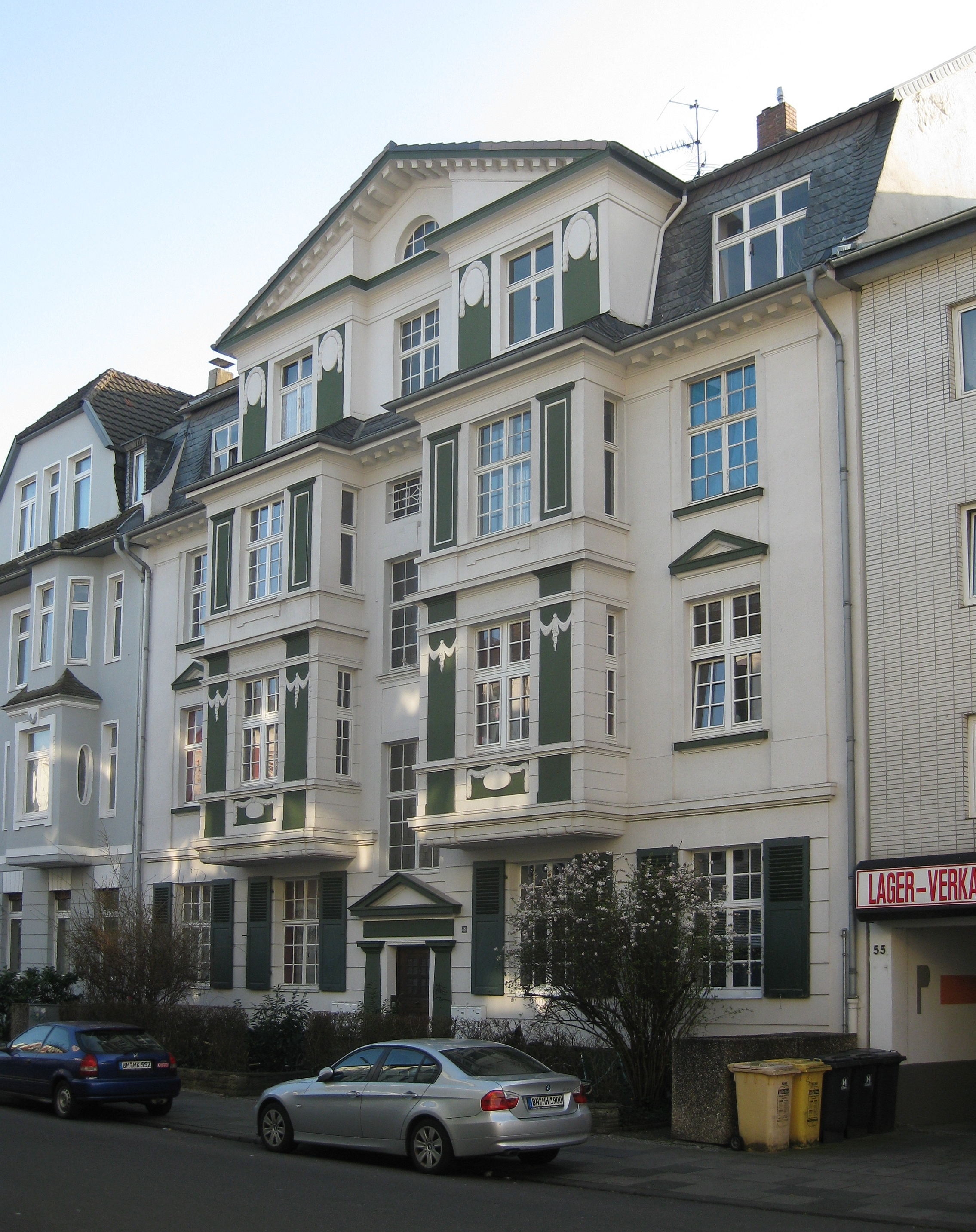 Germany, Bonn, Haydnstraße 49: Residential building in the Weststadt/Musikerviertel (West Town / Musicians district). It is also used in the german TV-WDR-Tatort scene from Münster (Thiel & Boerne) as a backdrop for the common home of the two investigators.